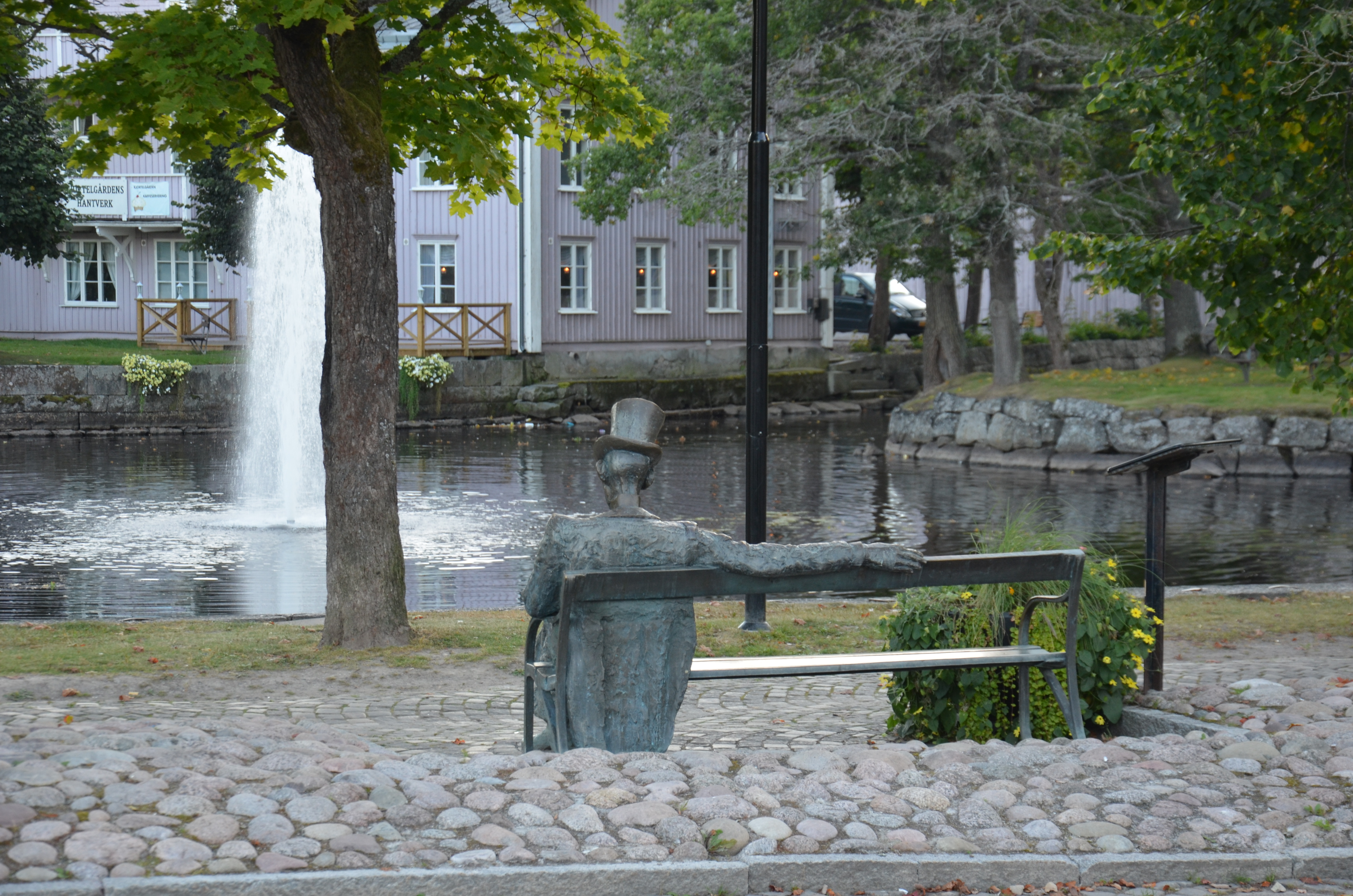 K G Bejemarks staty över Nils Ferlin på Stora Torget,mot Skillerälven